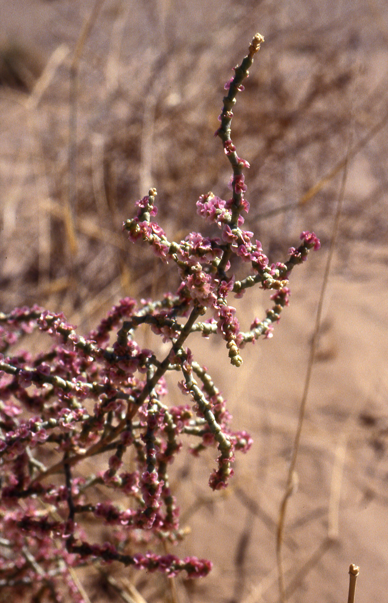 Hammada griffithii (Synonym Haloxylon griffithii) - Pakistan, Baluchistan, between Nushki and Quetta